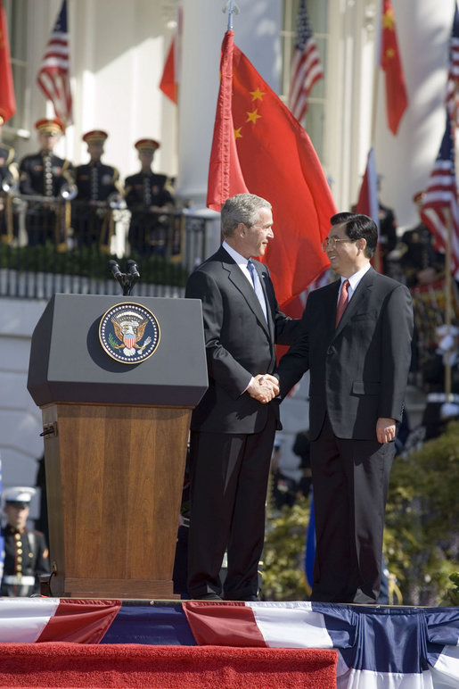 President George W. Bush shakes hands with President Hu Jintao of China after both leaders delivered remarks during a South Lawn arrival ceremony, Thursday, April 20, 2006.